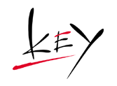 This is the logo of the visual novel company Key.